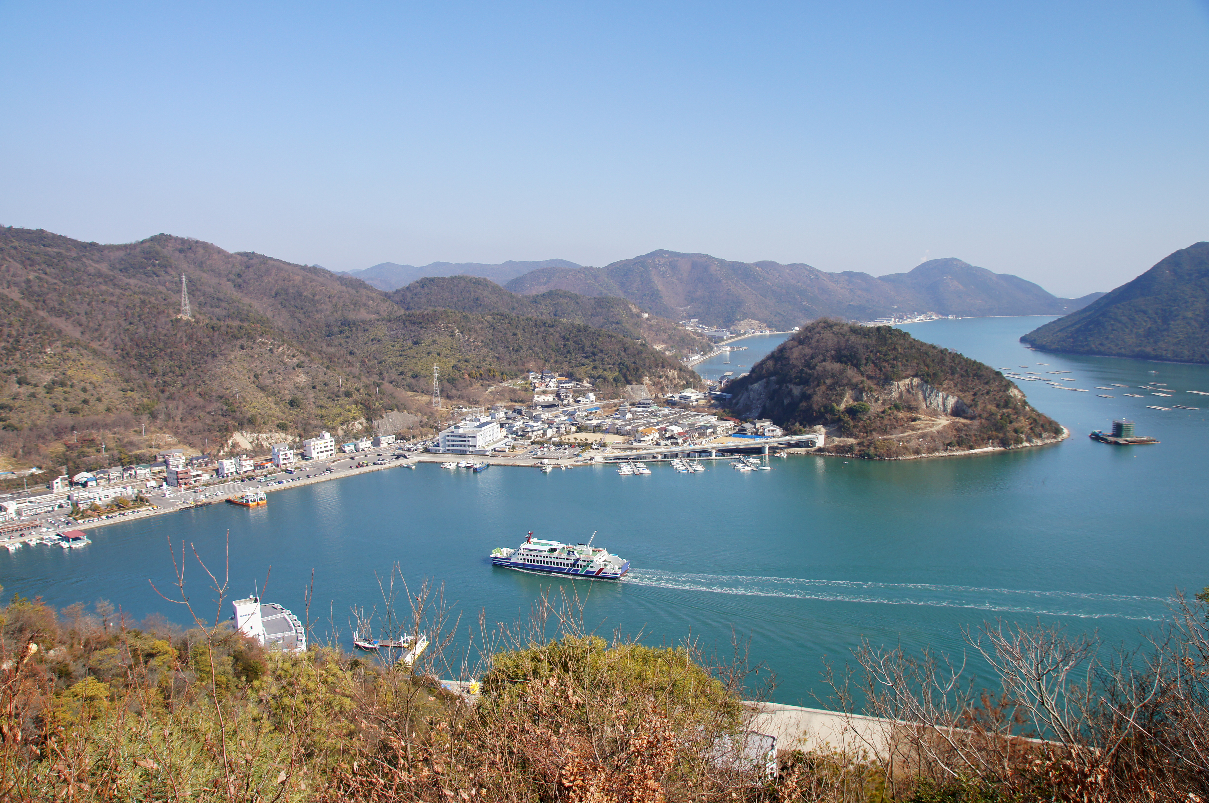 Hinase Bay at Hinase, Bizen, Okayama prefecture, Japan